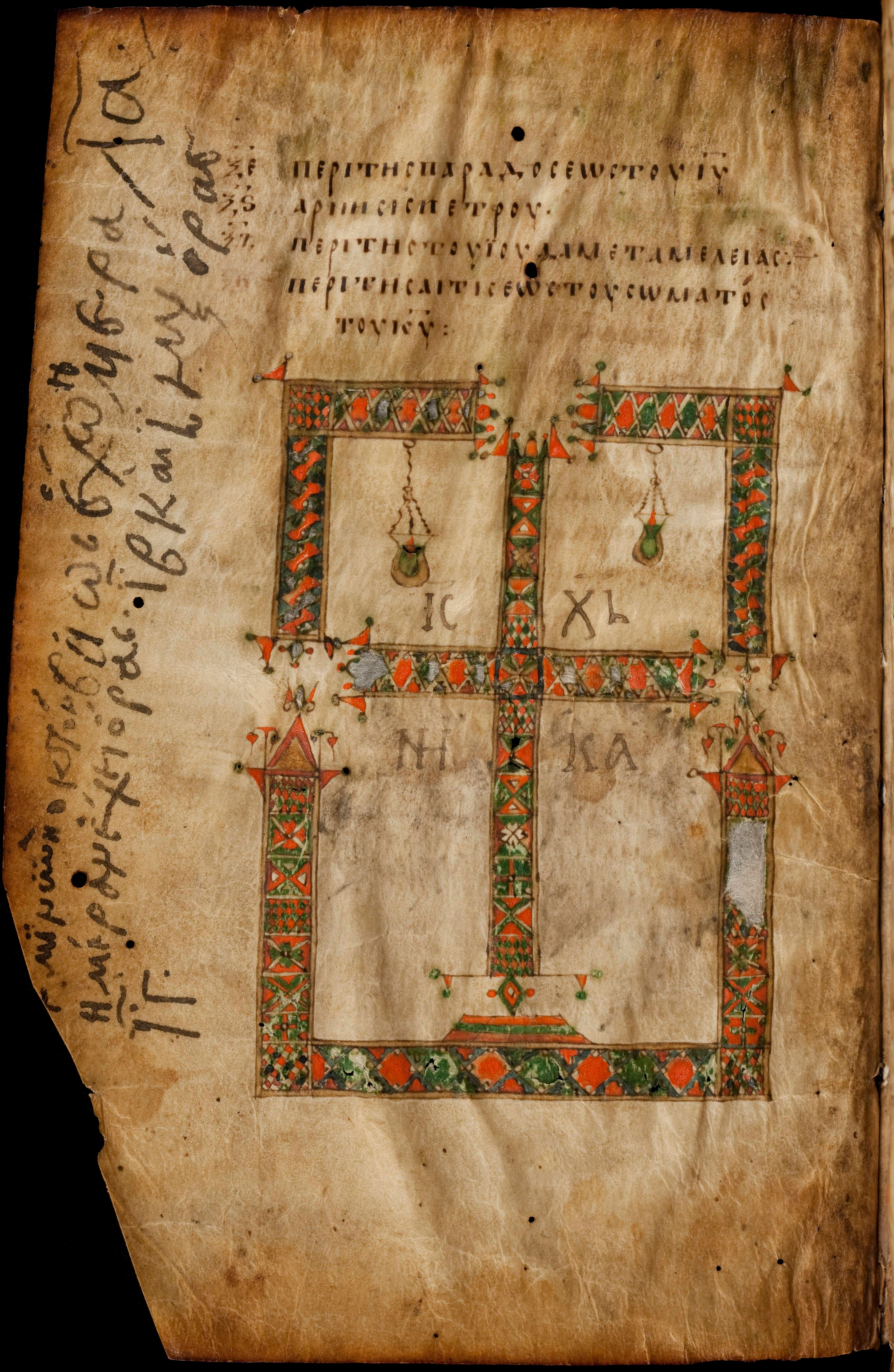 8ème page du manuscrit